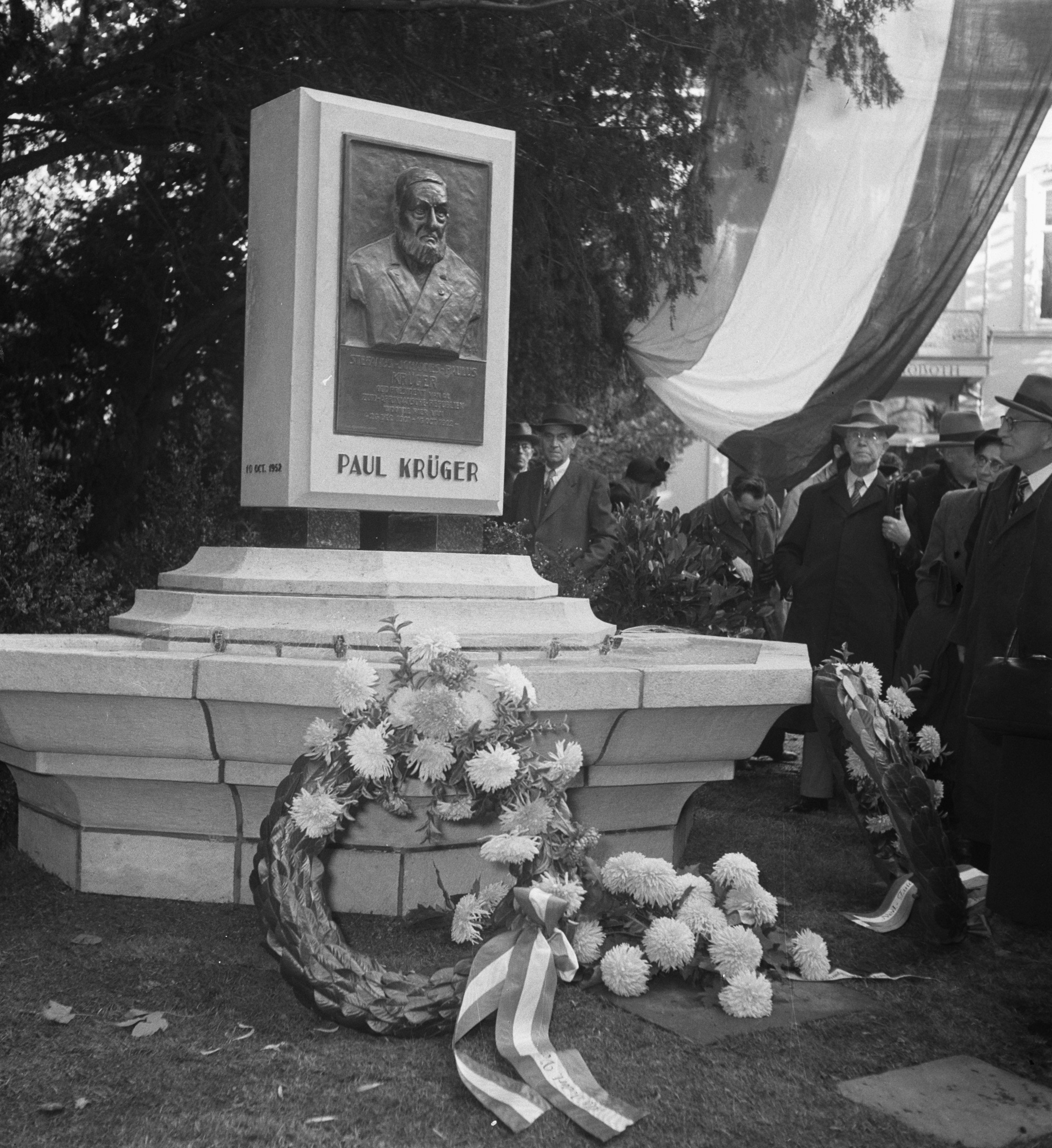 Unveiling of a statue in honor of Paul Kruger by the ambassador of South Africa, P.I. Hoogenhoudt. Date: 10 Oct. 1952; location: Villa Oranjelust, Maliebaan 89, Utrecht (The Netherlands). Kruger's name is spelled Krüger -a German habit at the time.